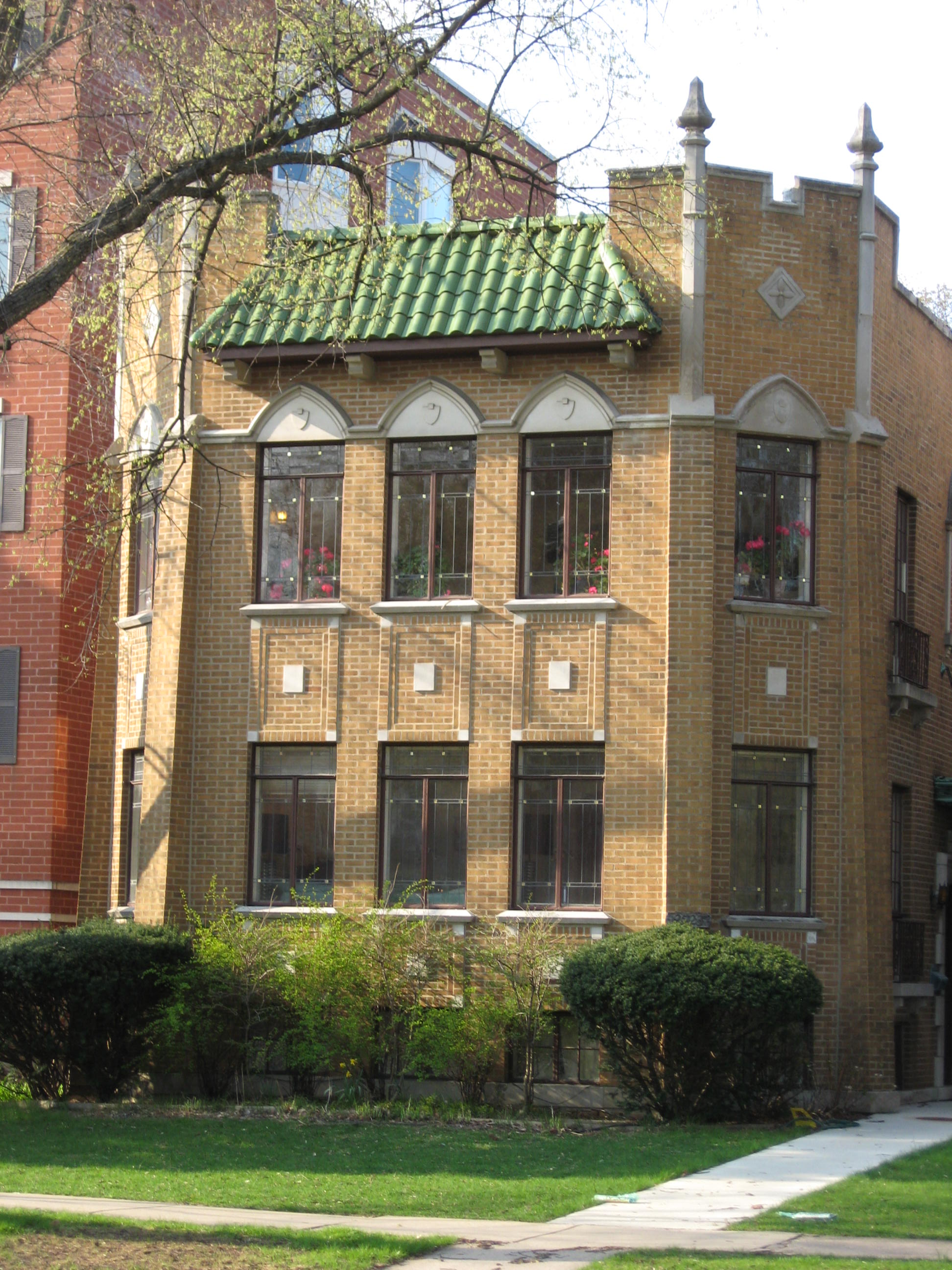 2523 Central St Evanston, IL 60201